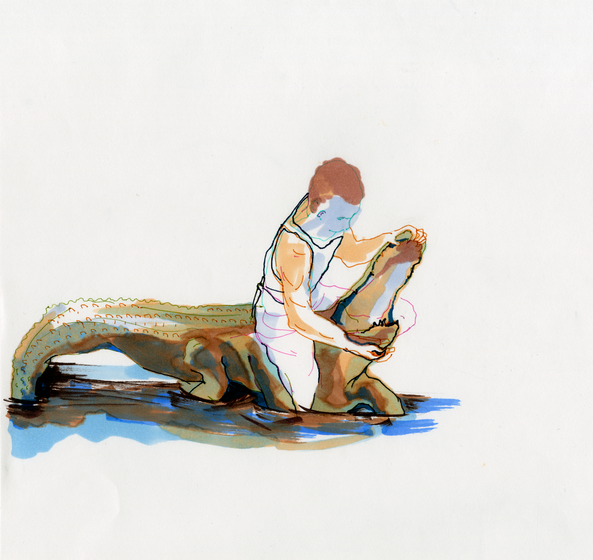 Illustration of a man wrestling an alligator.